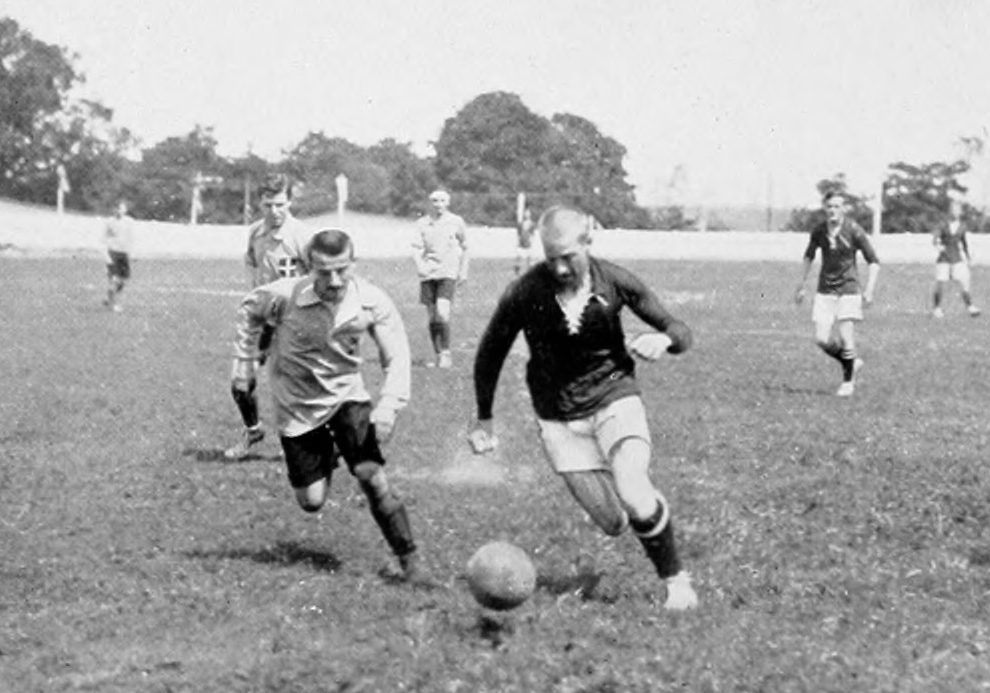 First round of the football competition at the 1912 Summer Olympics (Finland in dark jerseys)